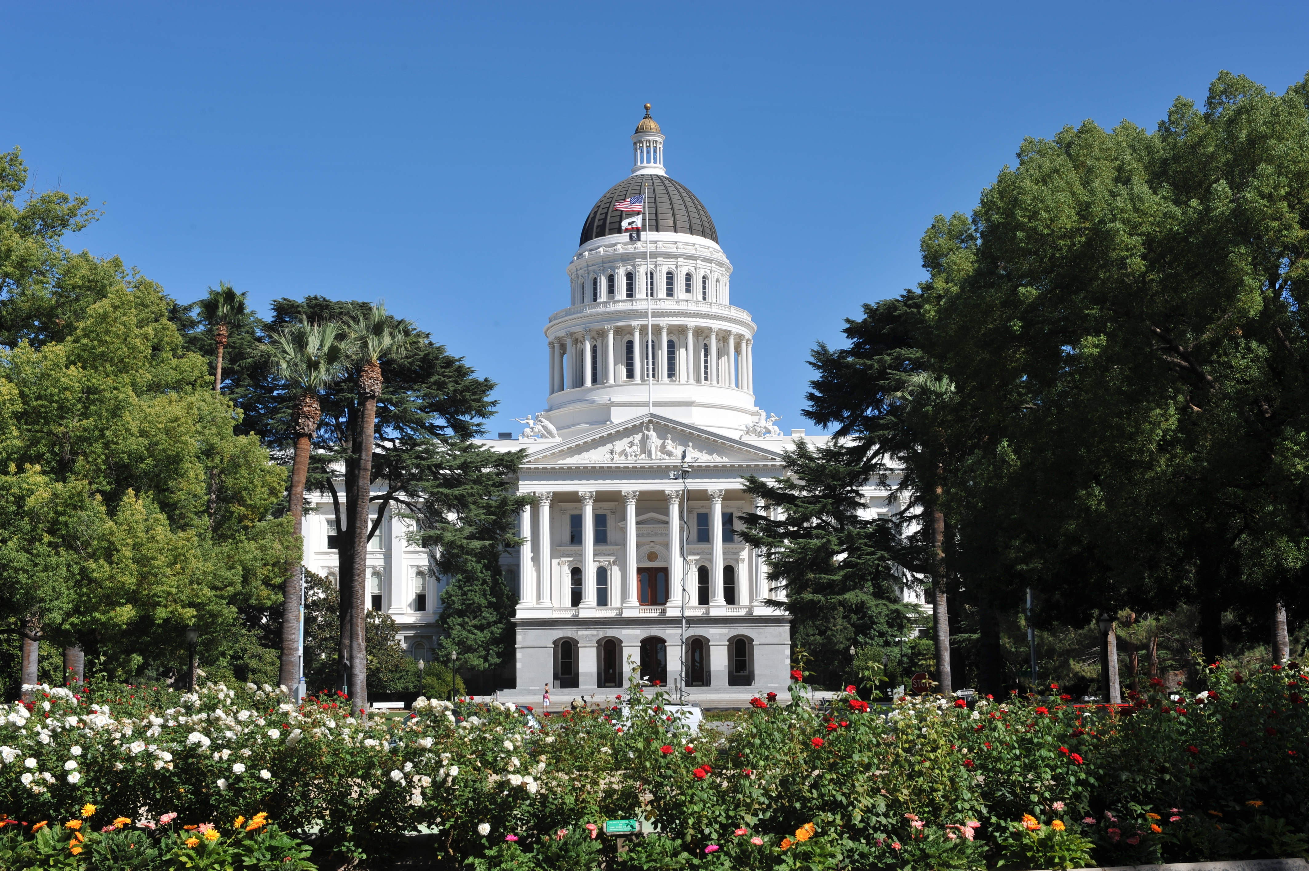 California State Capitol